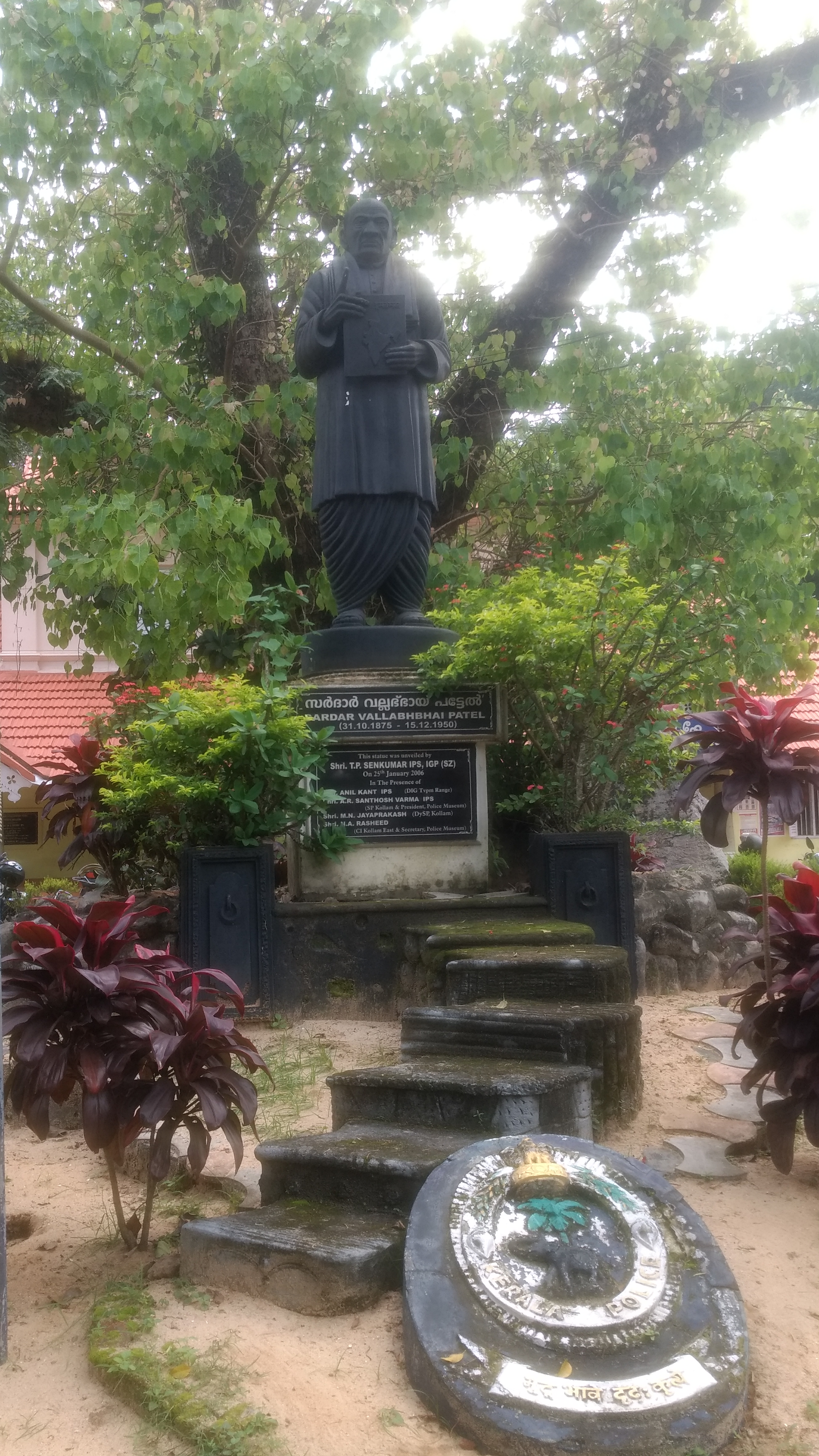 The statue of Sardar Vallabhai Patel is located at Sardar Vallabhai Patel Police Museum in Kollam district, Kerala, Kollam